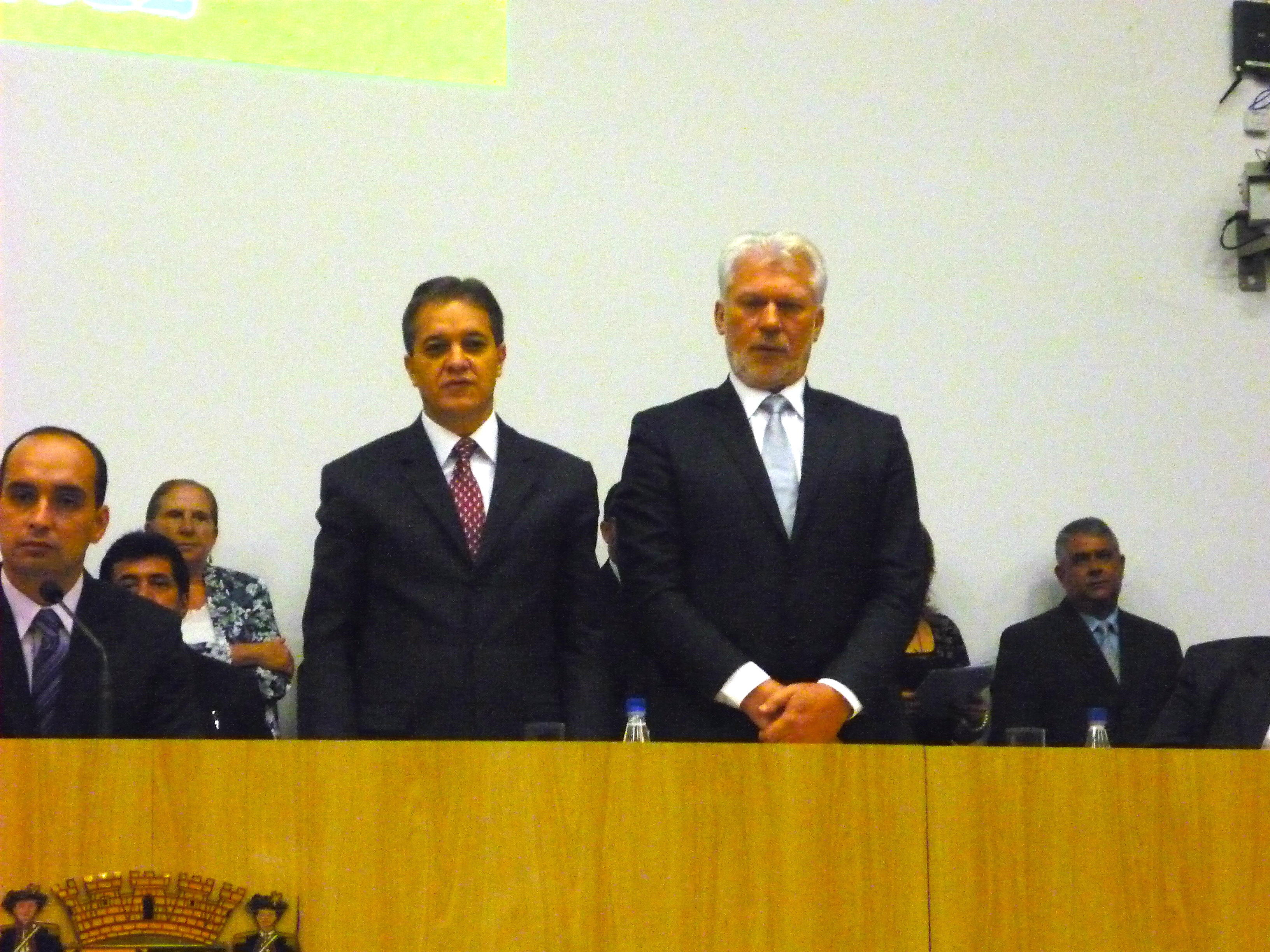 Wagner Balieiro, Secretary of transportation, mayor Carlinhos Almeida and vice mayor Itamar Coppio,from the city of Sao Jose dos Campos, Sao Paulo State, Brasil. January 1st, 2013, at the City Council. Photo taken by my, Aurelio Moraes, with a Panasonic Lumix FS3 Camera.